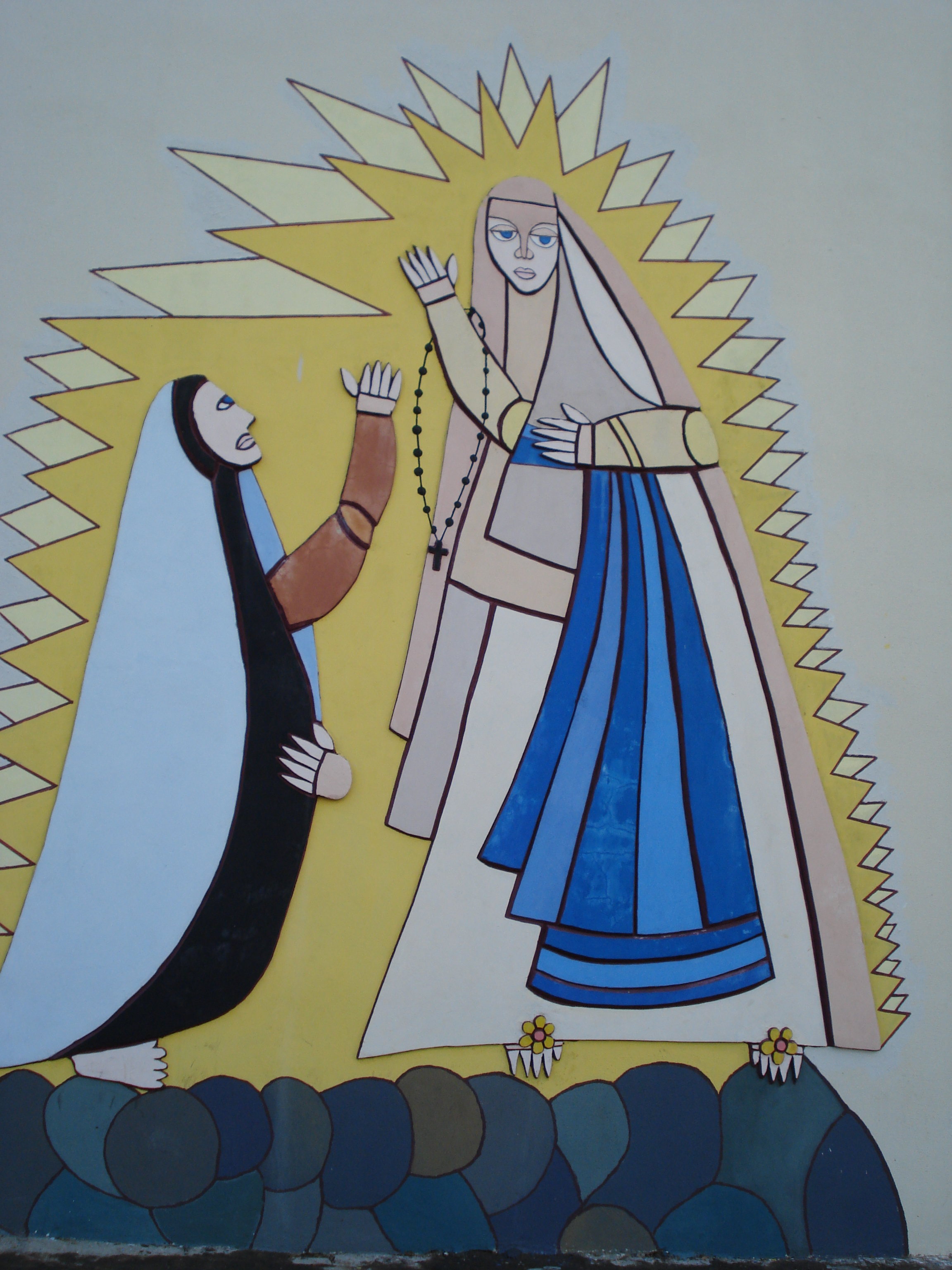 Igreja Nossa senhora de Lourdes